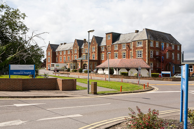 Moorgreen Hospital (main building) This is part of the hospital site that is planned to be replaced by housing, although other parts of the site will remain in use by the NHS. The site has a long history. "A Workhouse was constructed in 1848 and enlarged in 1887 and 1898. The original building consisted of four parallel wings based around a central connecting corridor. The three storey entrance block fronting Botley Road is still in use by the NHS and was an original part of the Workhouse although it has been much altered. The Workhouse was known as the South Stoneham Union Workhouse."